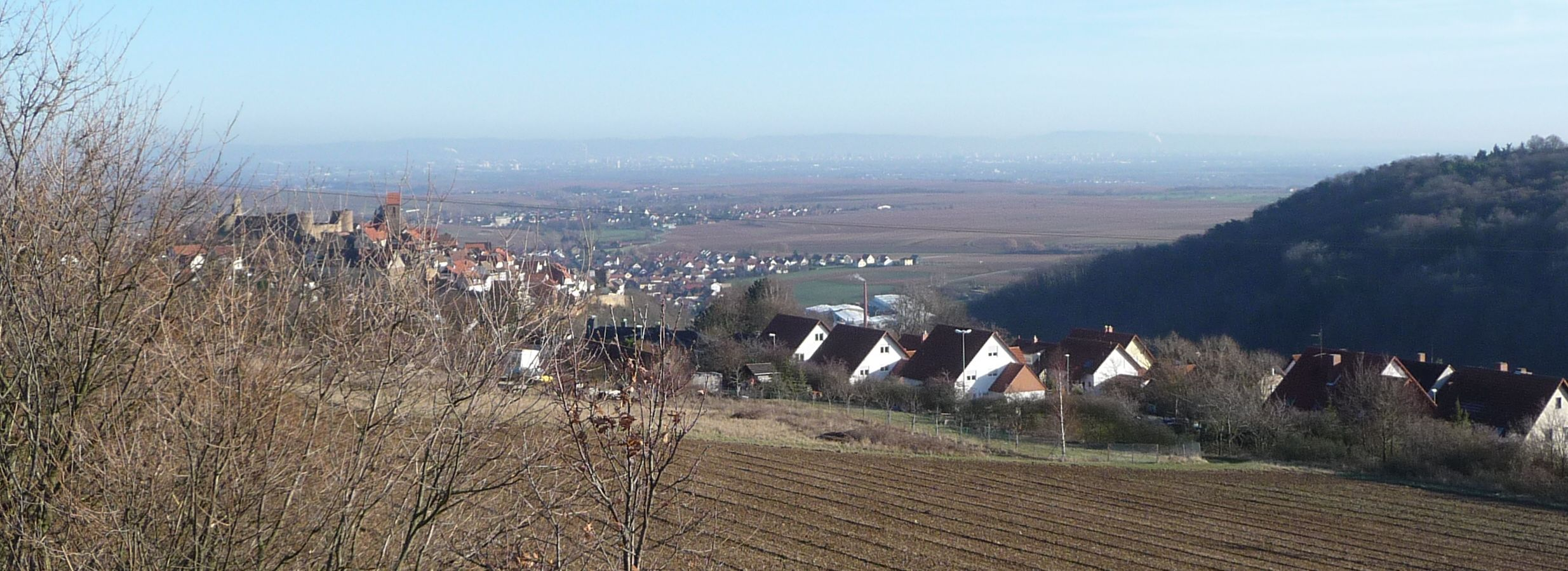 Altleiningen, Germany